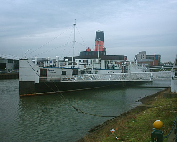 Lincoln Castle ferry in Grimsby Docks.